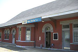 New Iberia station visited in August 2008